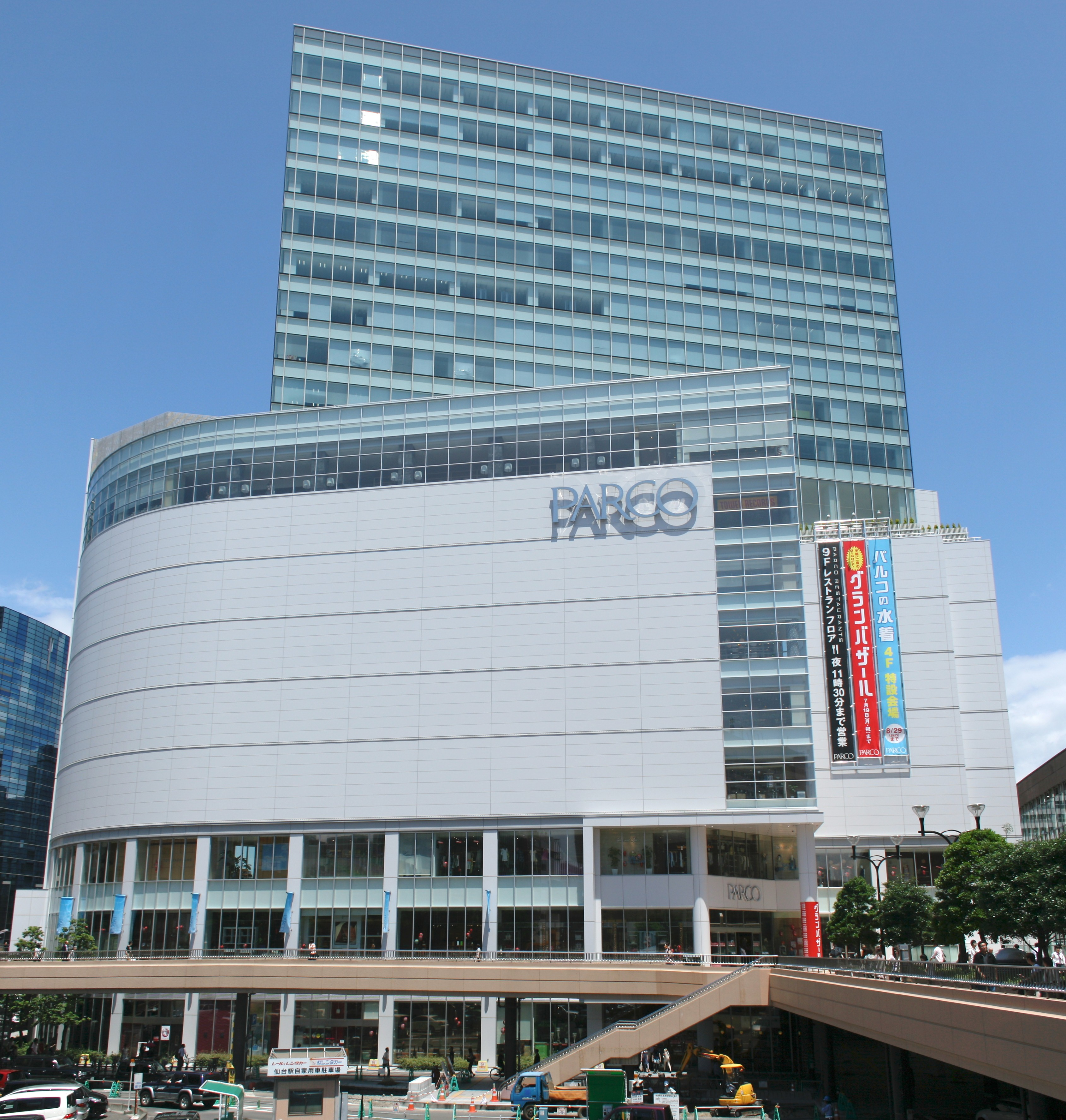 SENDAI MARK ONE in 1-chōme, Chūō, Aoba Ward (Aoba-ku), Sendai City (Sendai-shi), Miyagi Prefecture (Miyagi-ken), Japan. Taken from south, on the pedestrian deck near the West exit of JR Sendai Station. Stitched 2 photos together by Hugin, and retouched by GIMP2.